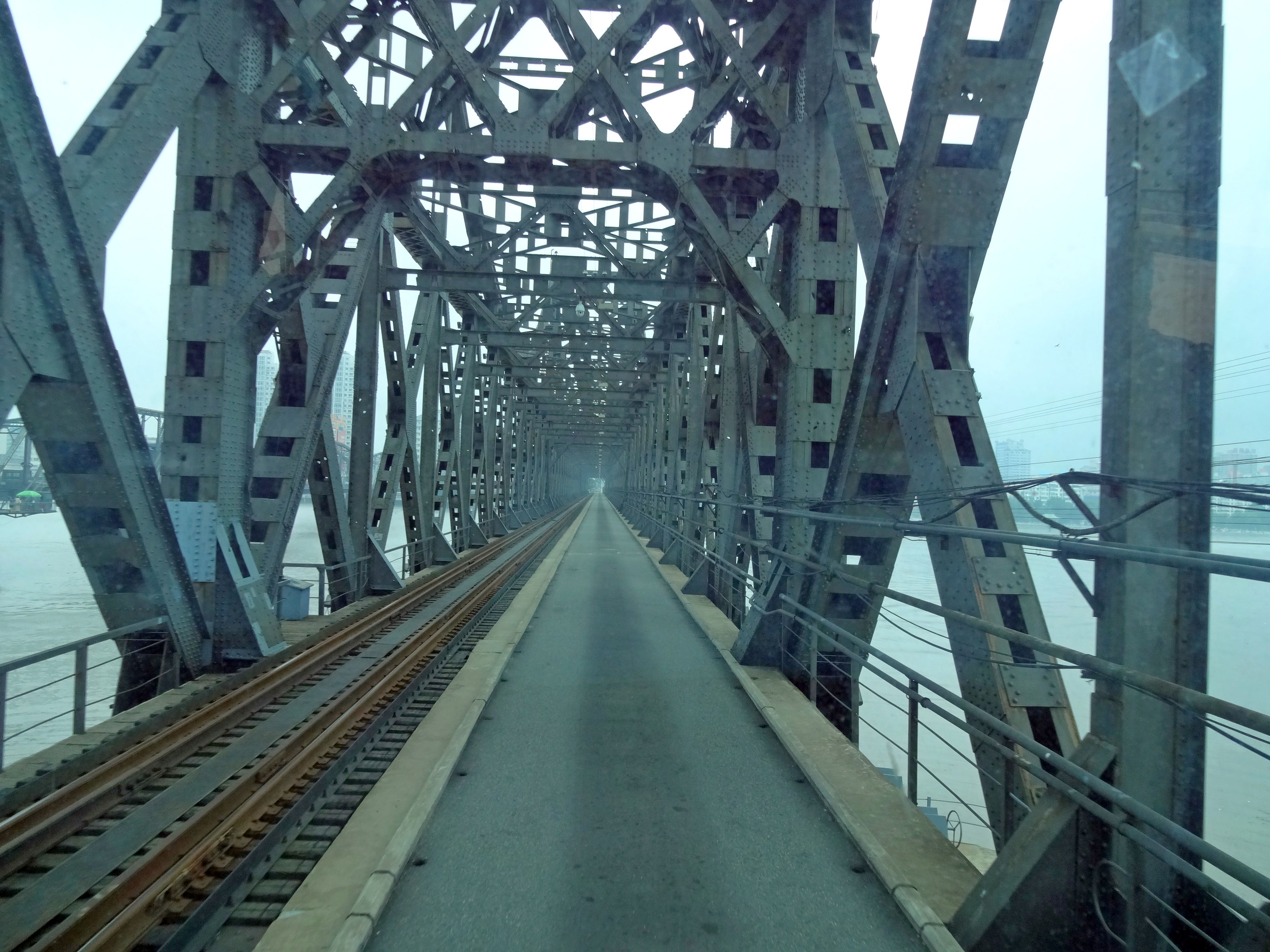 Driving over the Sino-Korean Friendship Bridge by bus